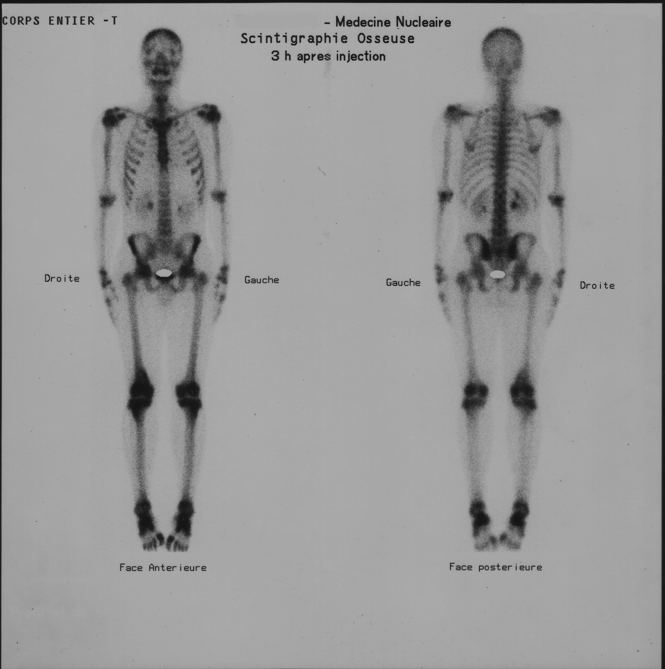 Gamma camera image full body